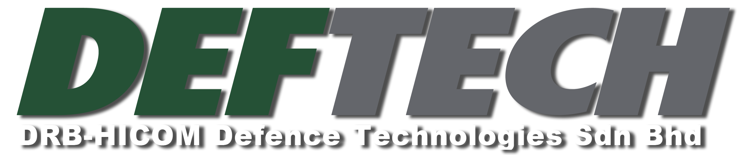 DEFTECH logoBahasa Melayu: Logo DEFTECH